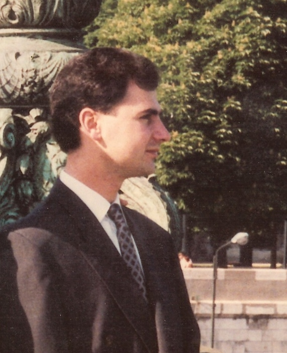 Dejan Stojanović in Paris.